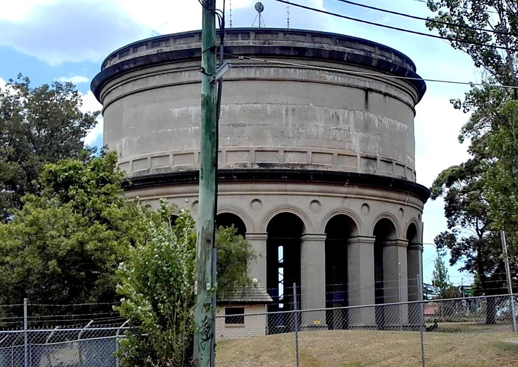 Bankstown Reservoir, situated in Hume Highway, corner of Stacey Street.